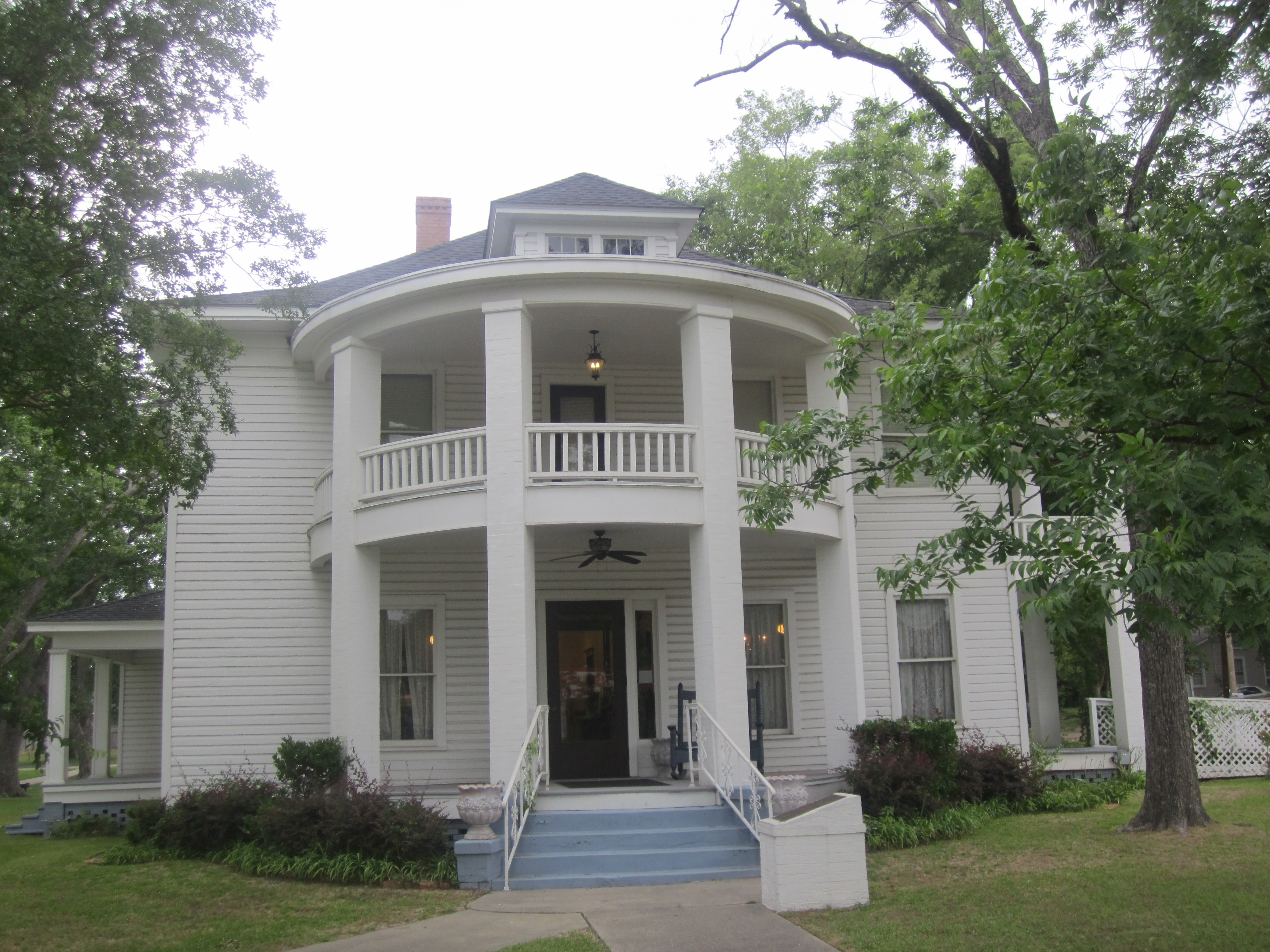 I took photo with Canon camera in Carthage, TX.